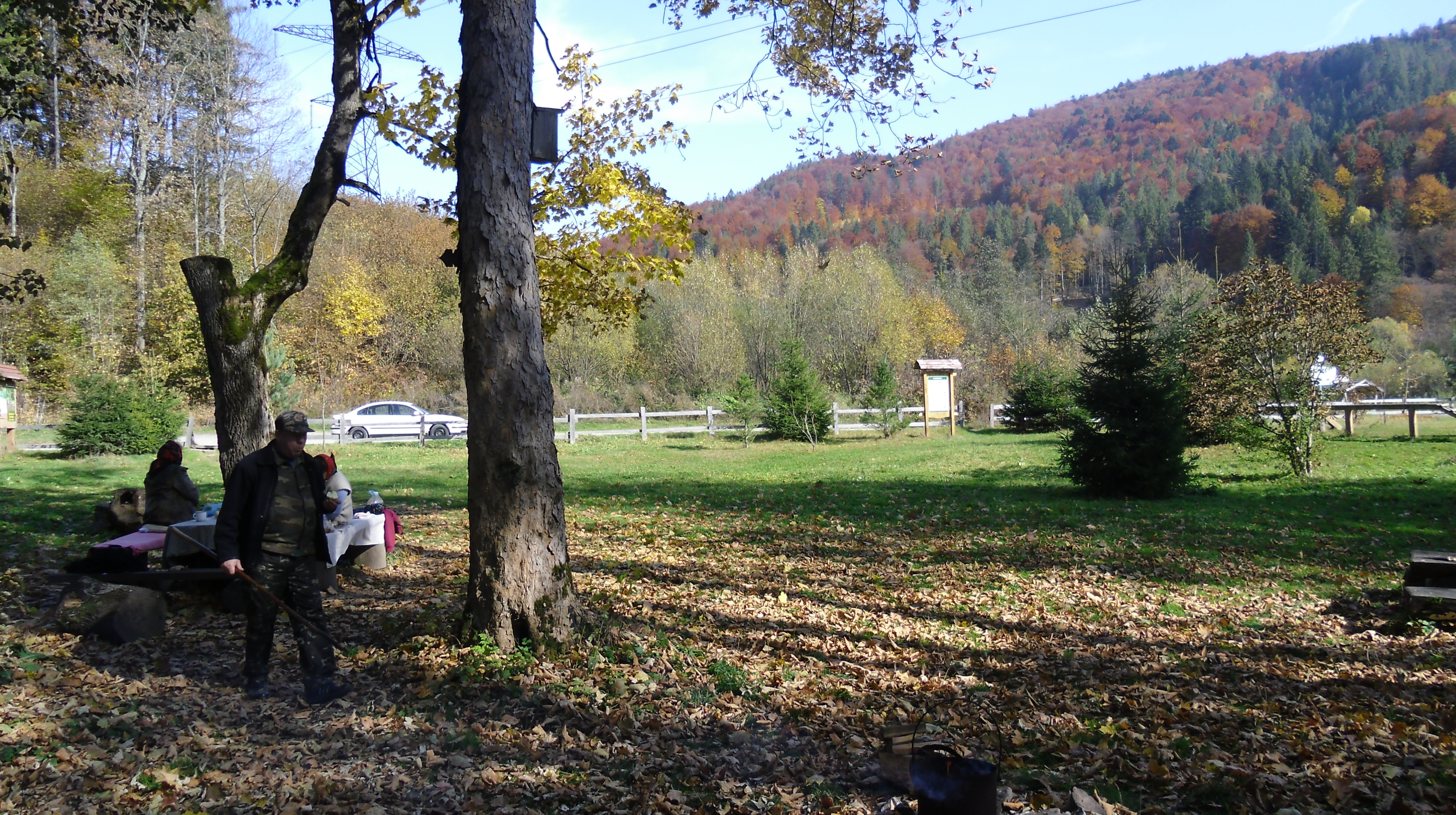 Skole is a small town at the center of Skole district in the Lviv Oblast (province) of Ukraine, with favorable conditions for the tourist trade.